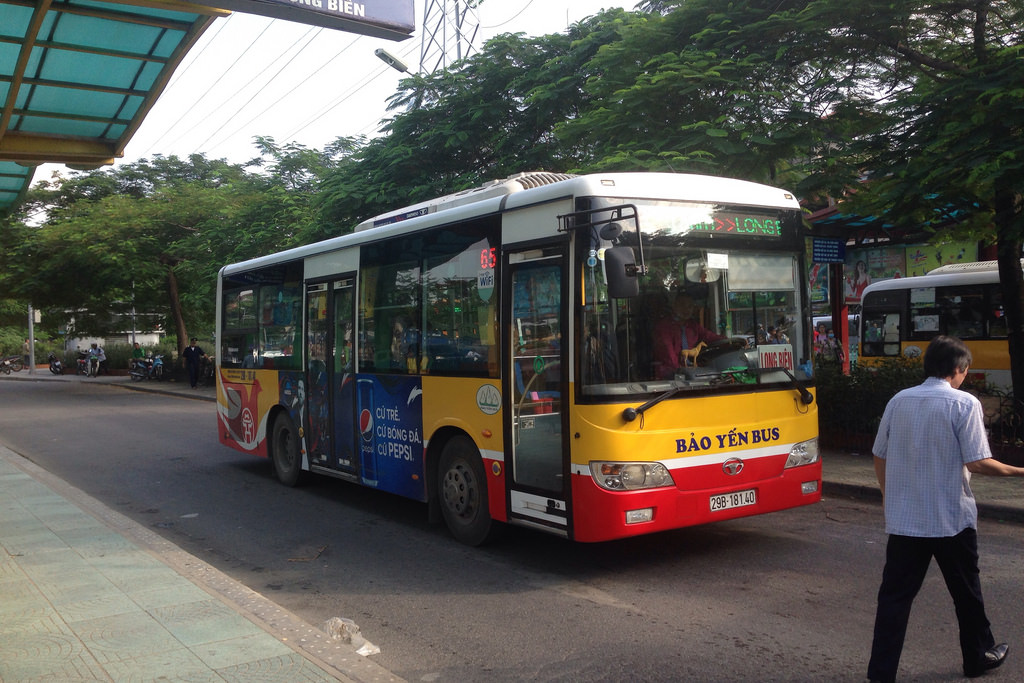 Bus at Long Biên